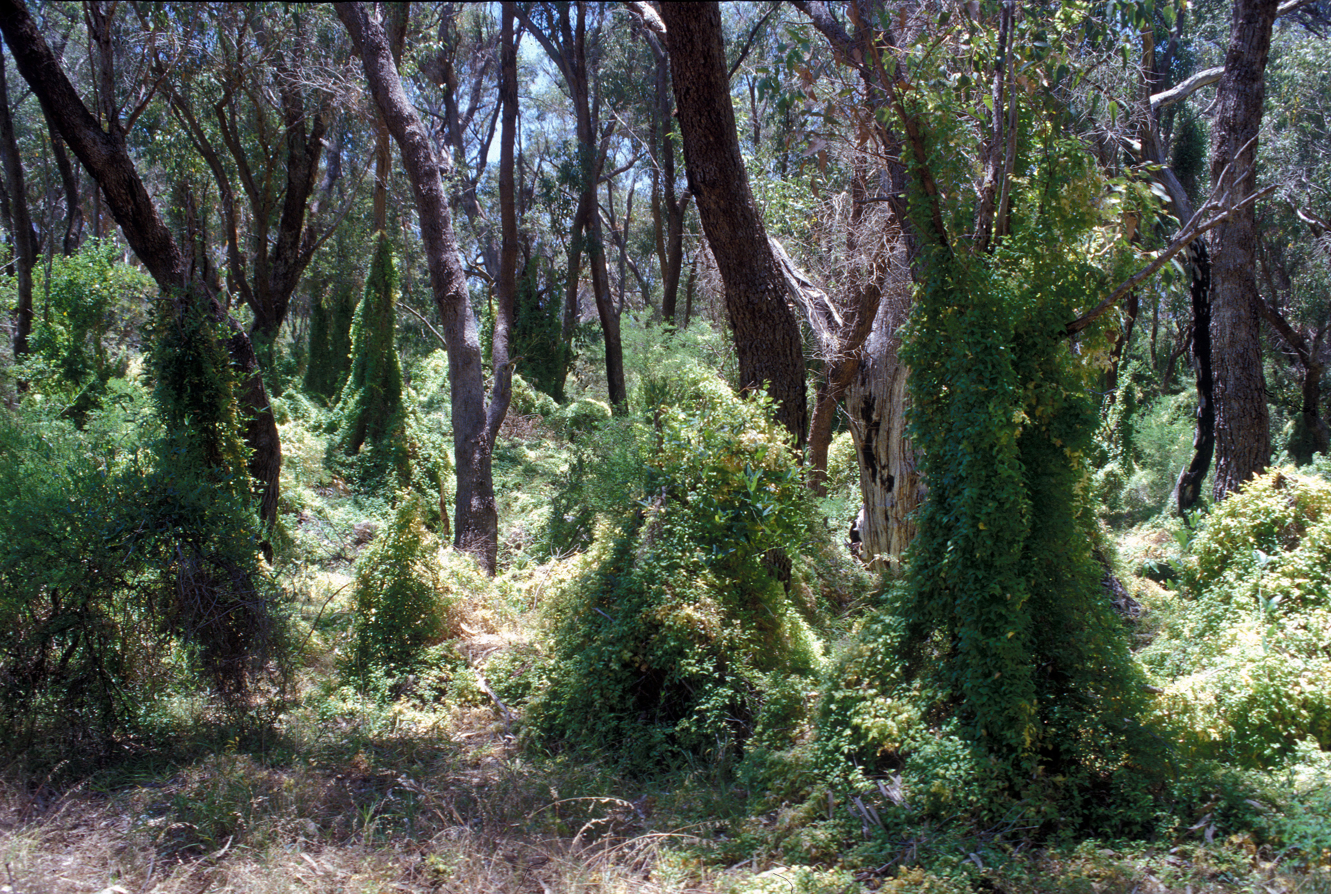 A Bridal Creeper infestation. Bridal Creeper became recognized as a major environmental pest across Australia in the early 1990s. Photo credit: Louise Morin